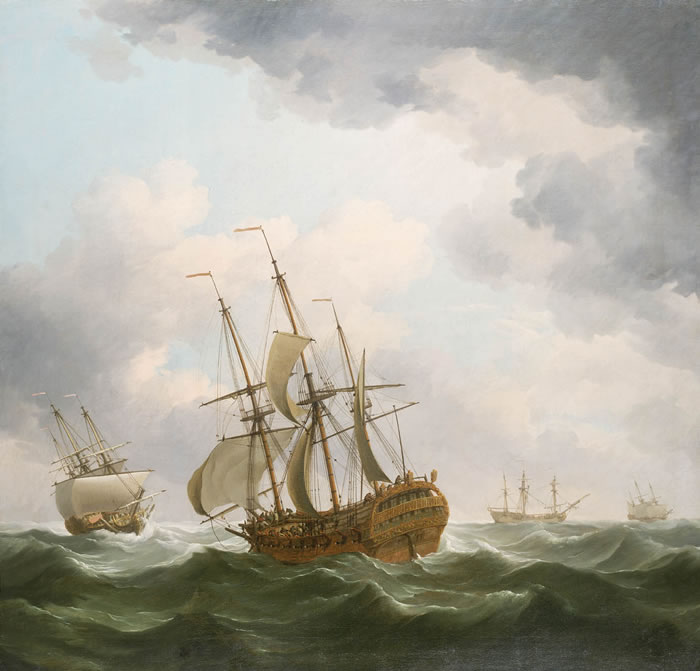 This is a portrait of an East Indiaman in the foreground, in port-quarter view. The ship in the distance to the left approaches in starboard-bow view, heeling on the port tack under fore and main-course. The wind blows strongly from the right and both vessels are shown under reduced sail. In the far distance on the right two more ships are shown at anchor in starboard-broadside view.